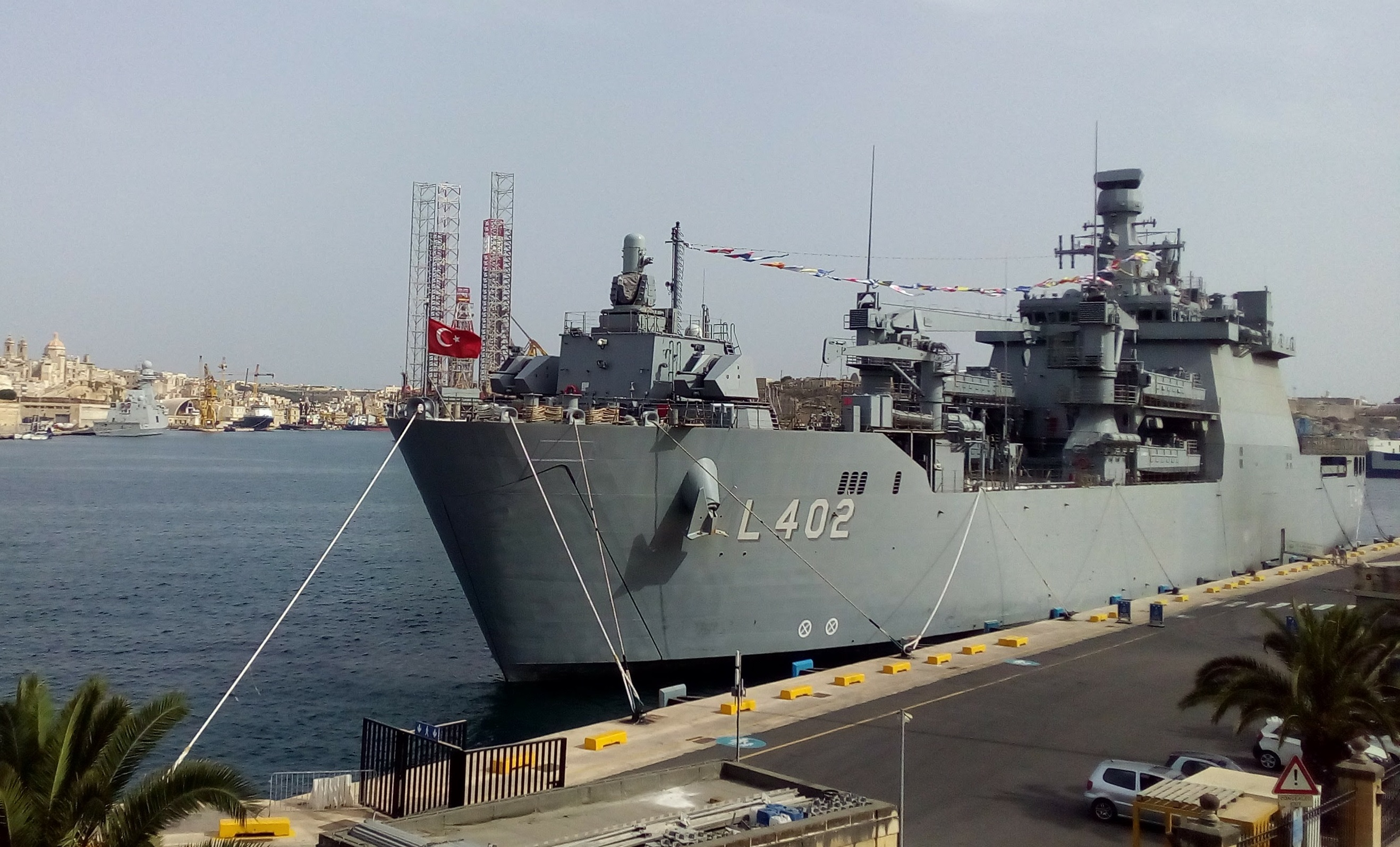 TCG Bayraktar (L-402) Turkish Landing Ship in Valletta Harbour, Malta